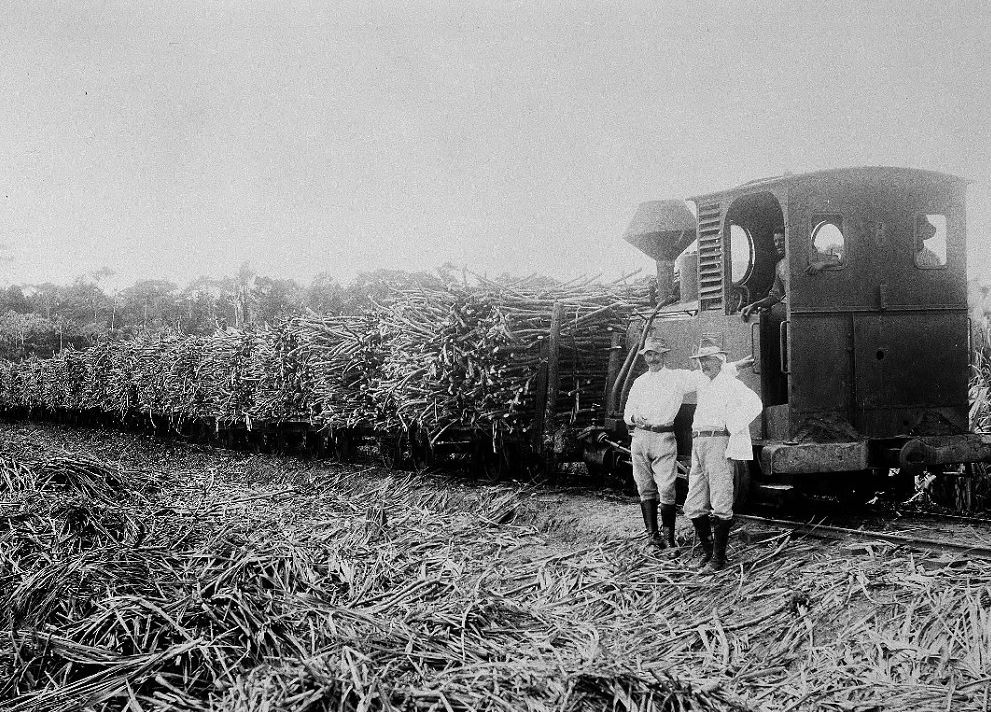 Sugar train in Suriname